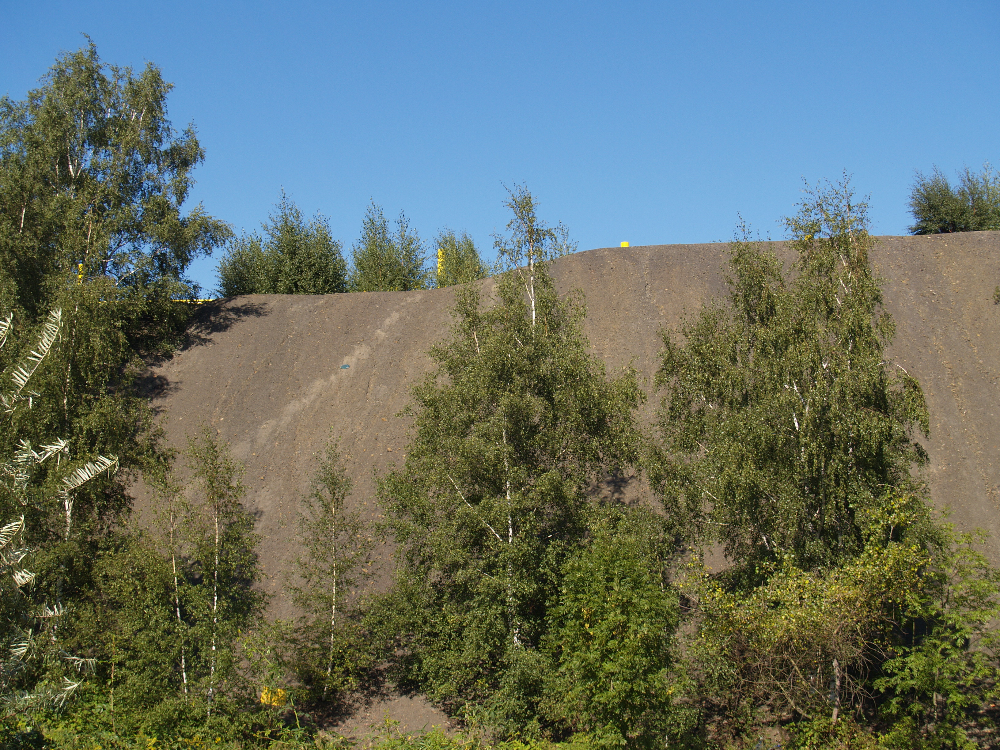 Halde Lothringen, Bochum, Germany, south side